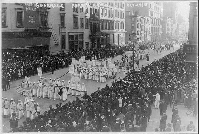 Pre-election suffrage parade, New York City, October 23, 1915. 20,000 women marched.